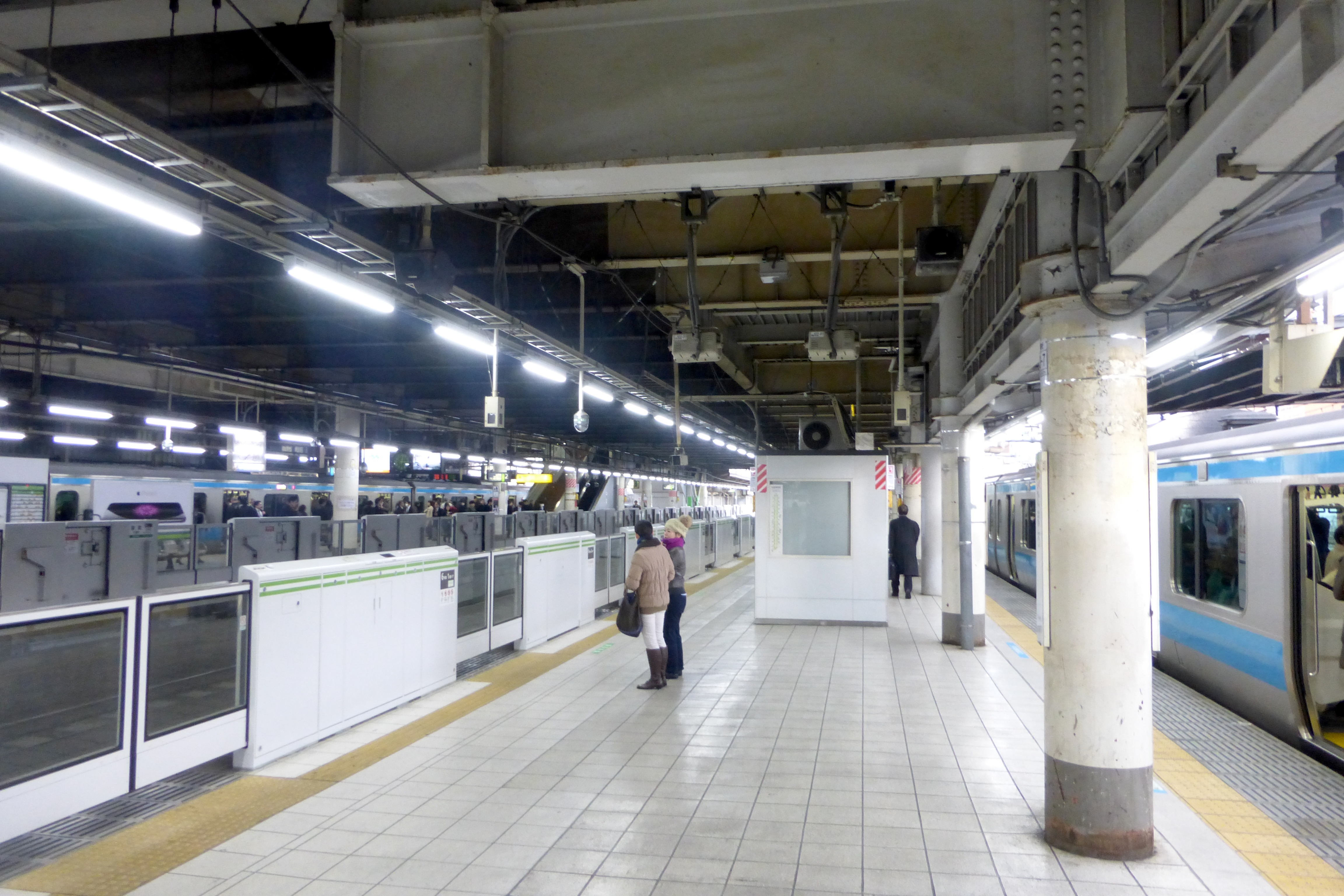 Tamachi Station platforms